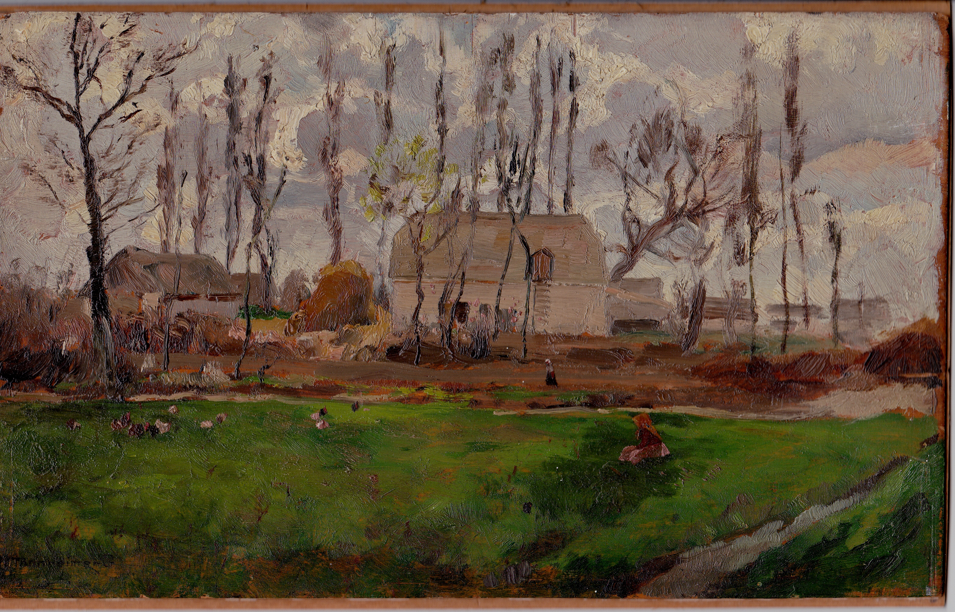 Magyar Mannheimer Gusztáv ritka festménye Ismeretlen című festménye. Nemzeti Szalonban kiállított